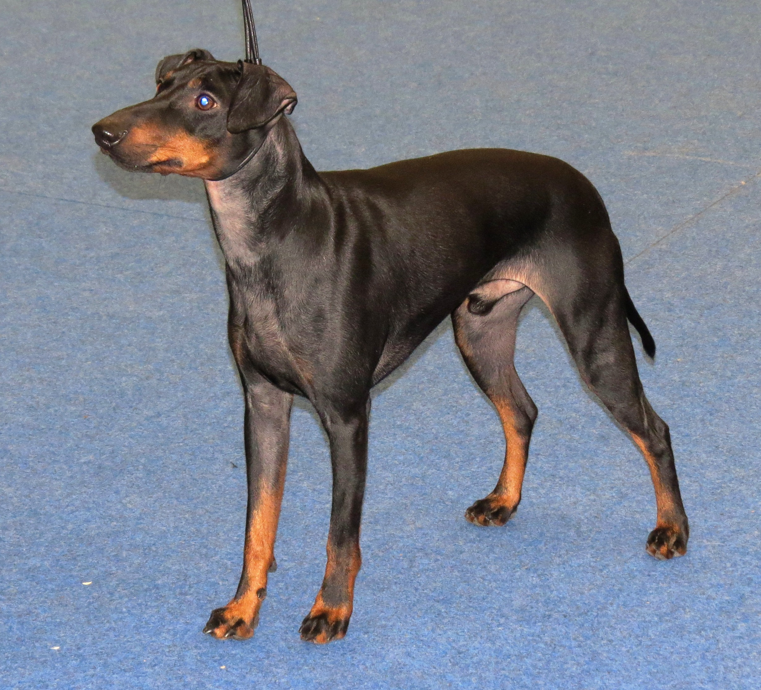 Koira 2013 Helsinki 13-15/12/2013